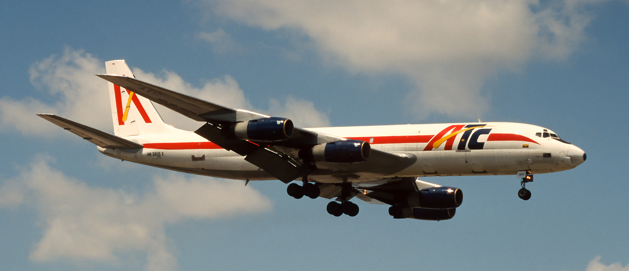 it is a plane.